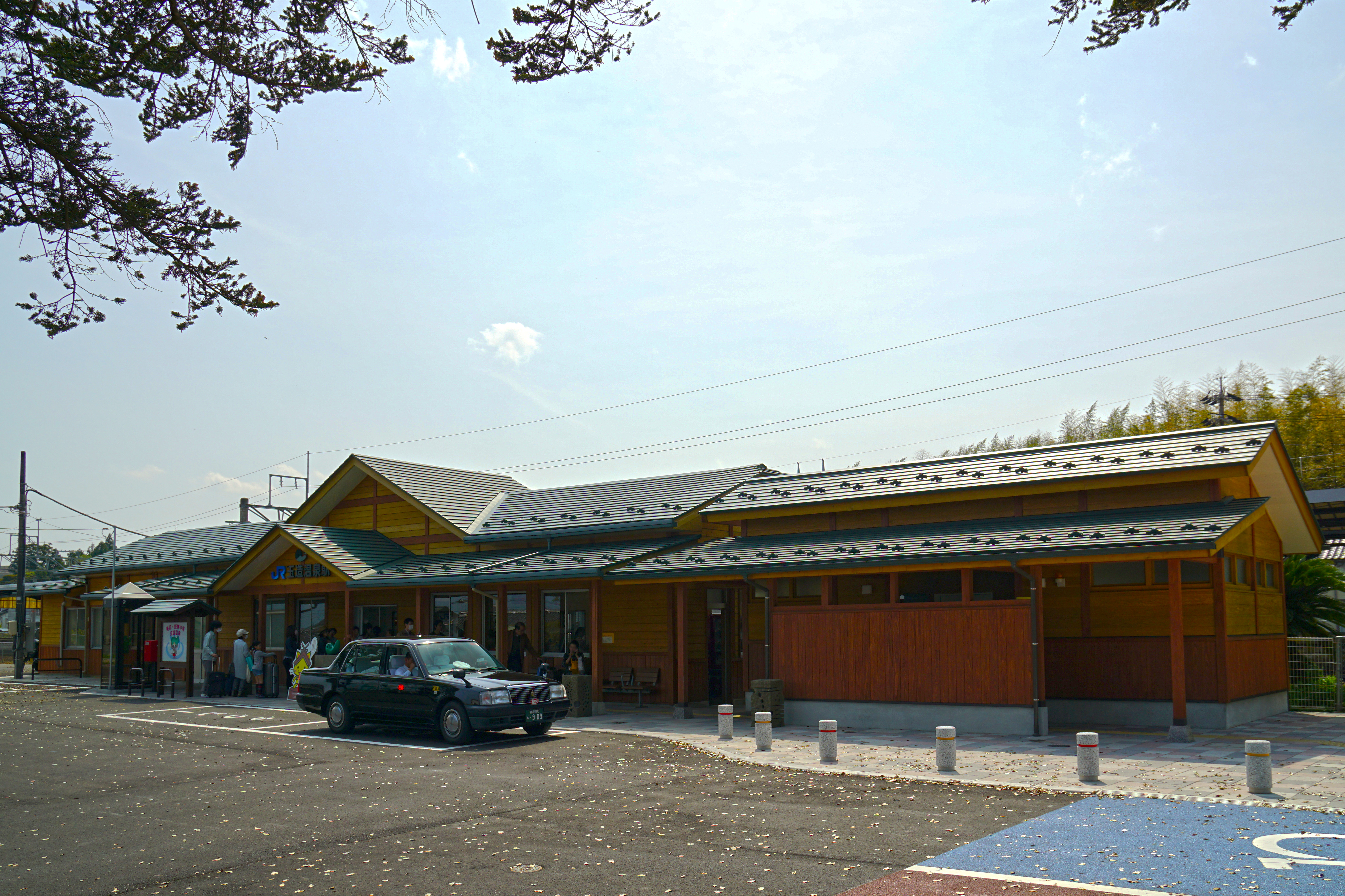 Tamatsukuri-Onsen Station in Matsue, Shimane prefecture, Japan